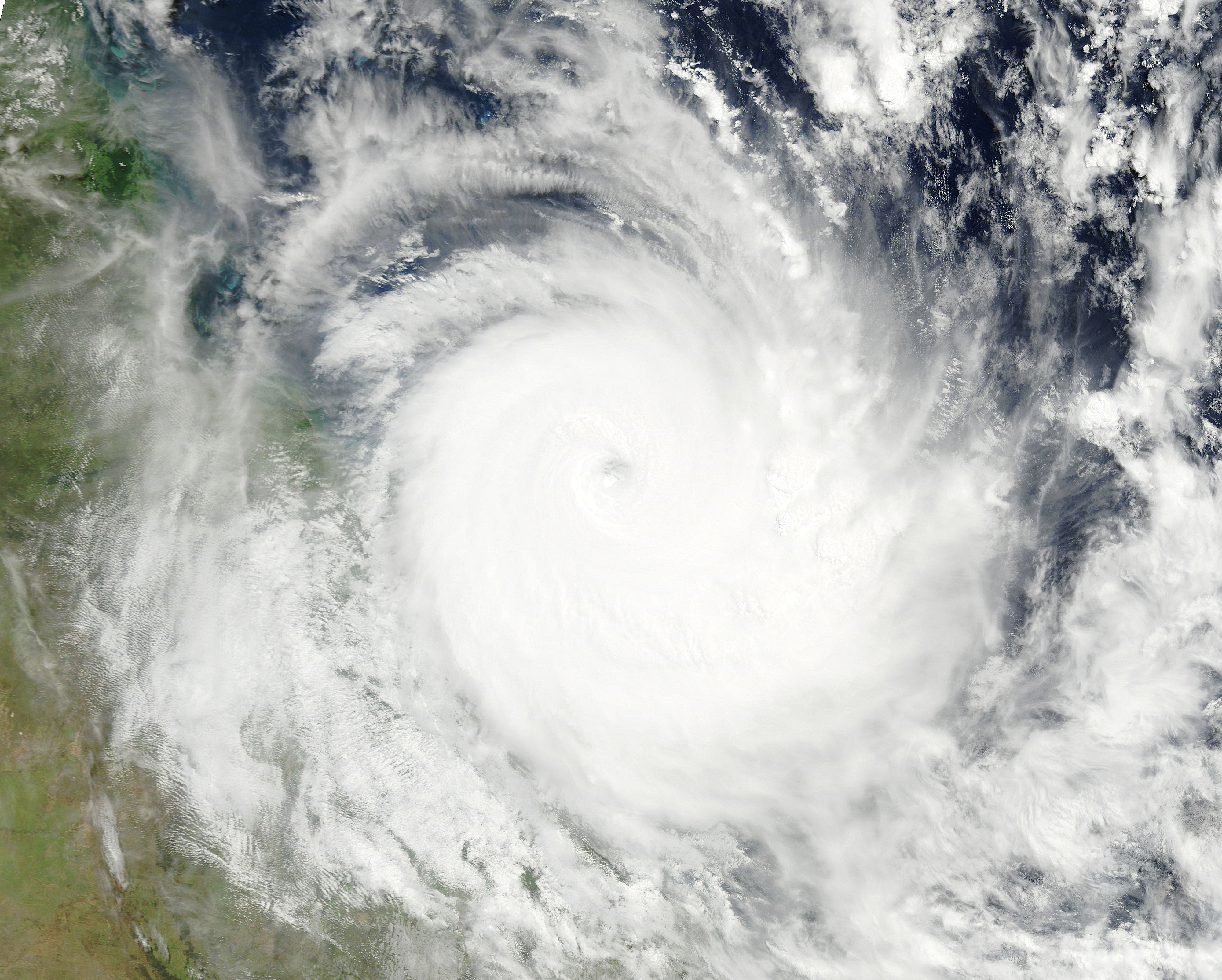 8 March 2009 MODIS Terra satellite image of Severe Tropical Cyclone Hamish over the Coral Sea just off the Queensland coast.